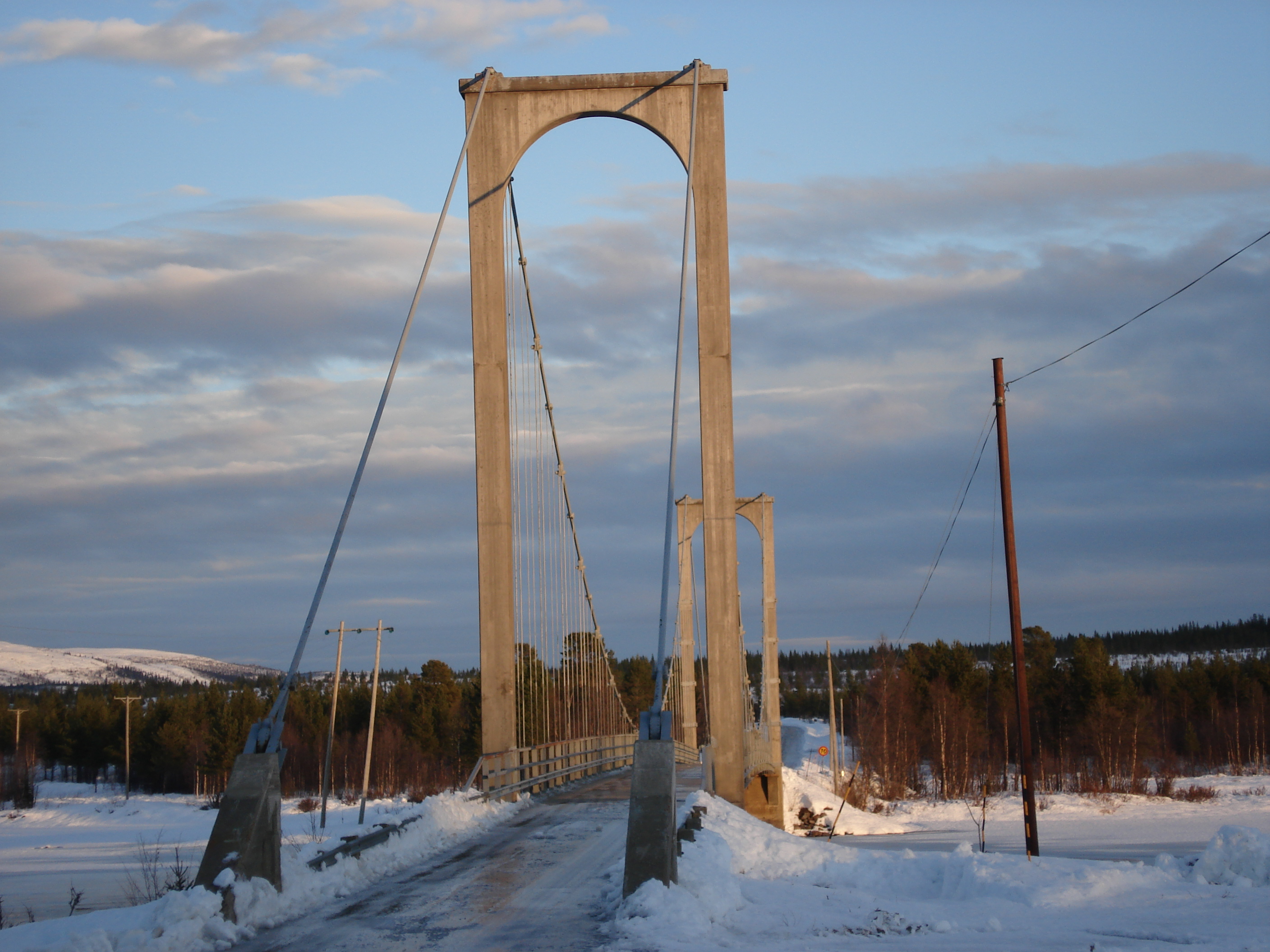 "A view of the bridge over the Dainak bay"